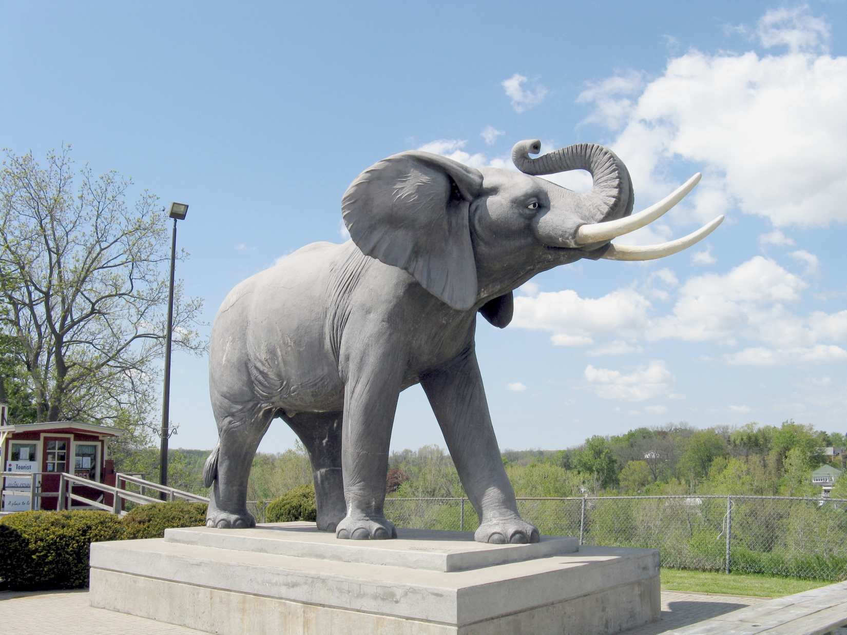 Statue of Jumbo in St. Thomas, Ontario